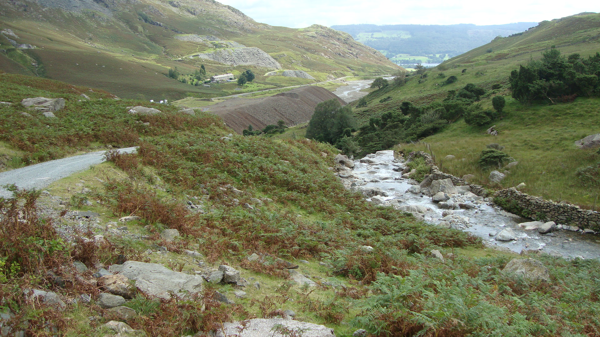 Old Man of Coniston walk (English Lake District)